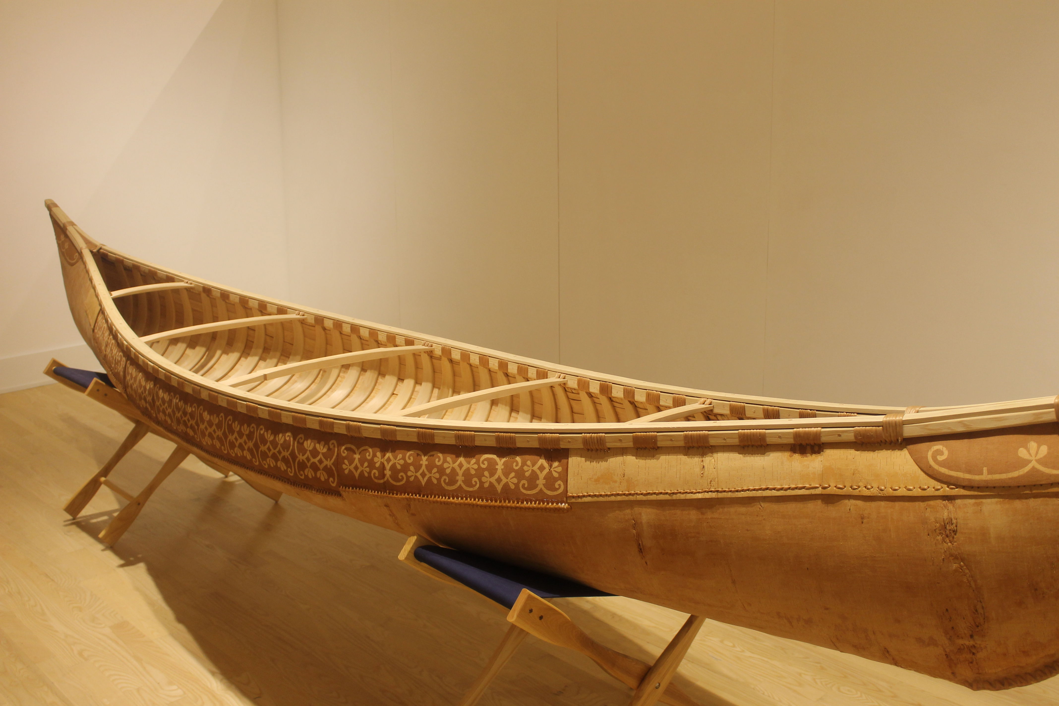 I took photo with Canon camera of birch-bark canoe at Abbe Museum in Bar Harbor, ME.